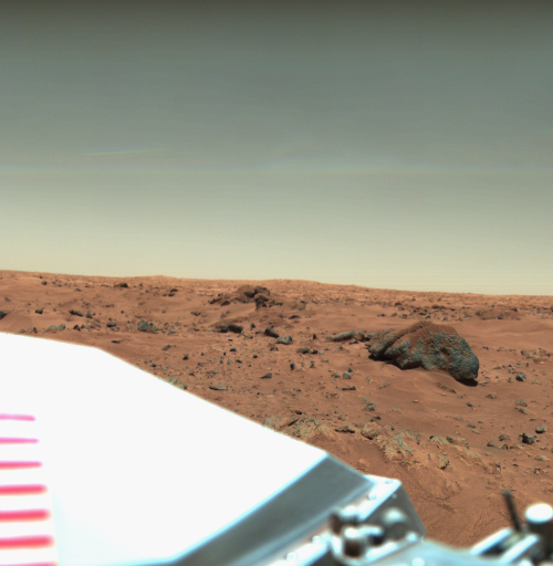 This picture was taken by the Viking Lander 1 on August 25, 1976 on Sol 35. The large rock just right of the center is about two meters wide. This rock was named "Big Joe" by the Viking scientists. The top of the rock is covered with red soil. Those portions of the rock not covered are similar in color to basaltic rocks on Earth. Therefore, this may be a fragment of a lava flow that was ejected by an impact crater. The part of the Lander that is visible in the lower left is the cover of the nuclear power supply.